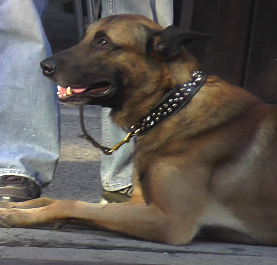 Graubaer's Boker filming in NYC